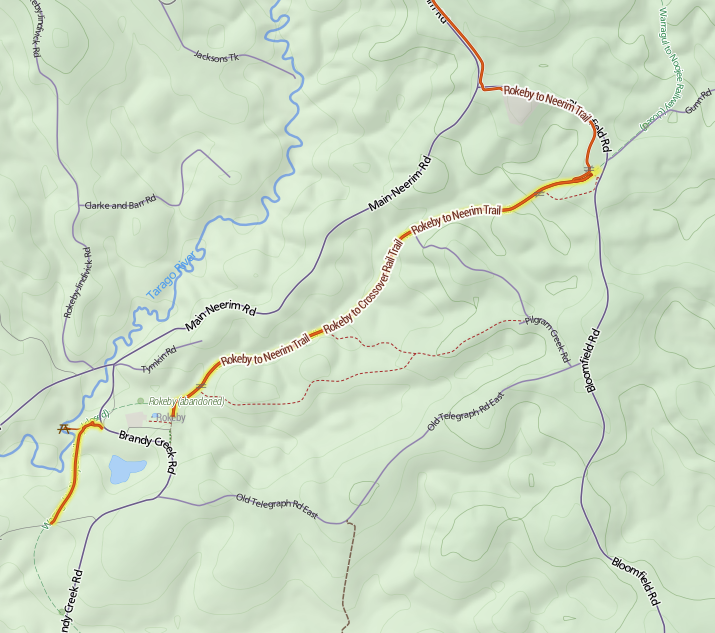 Map of the Rokeby-Crossover Rail Trai.